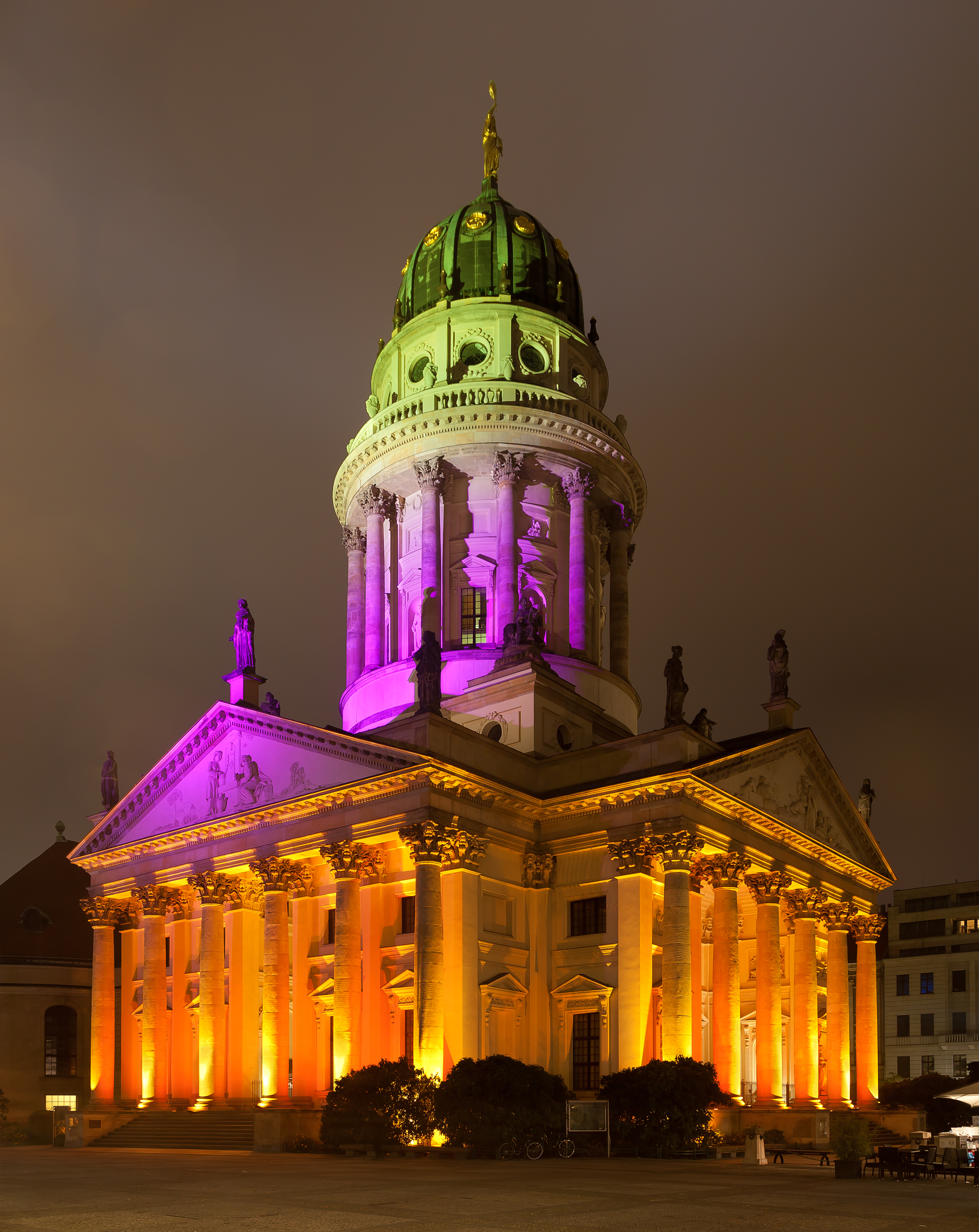 French Cathedral in Berlin, Germany